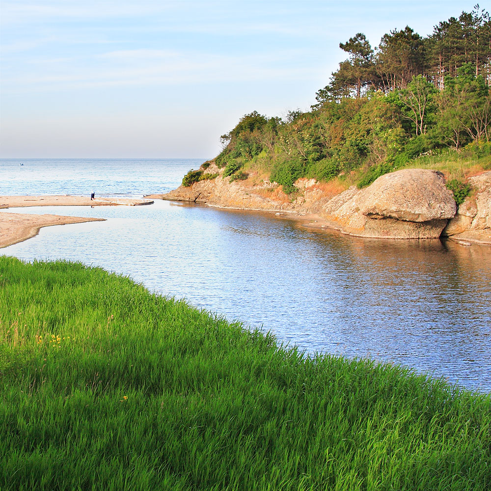 Karaagach river outfall, Bulgaria